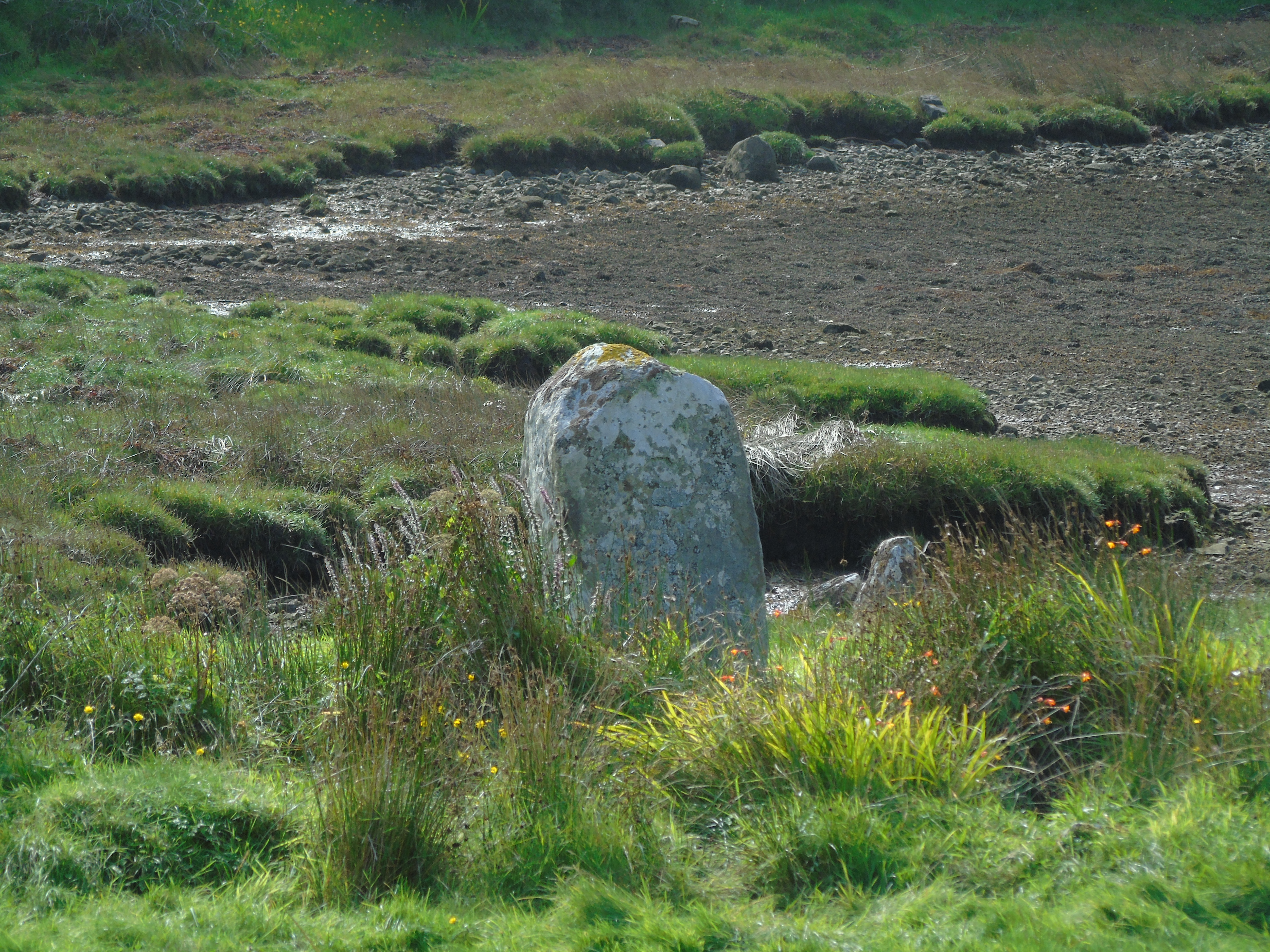 County Galway, Letterdeen Standing Stone. Wikidata has entry Q30247372 with data related to this item.